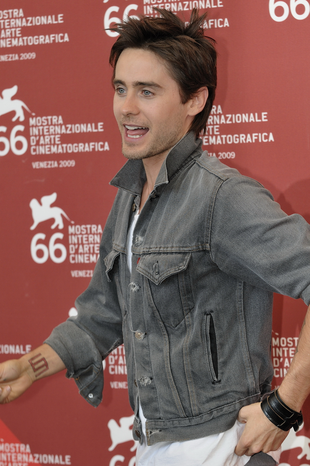 Jared Leto at the 66th Venice International Film Festival.